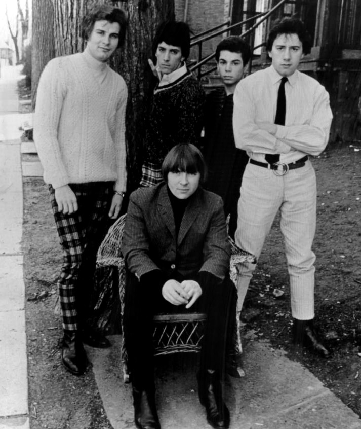 Publicity photo of the US band, The Outsiders.